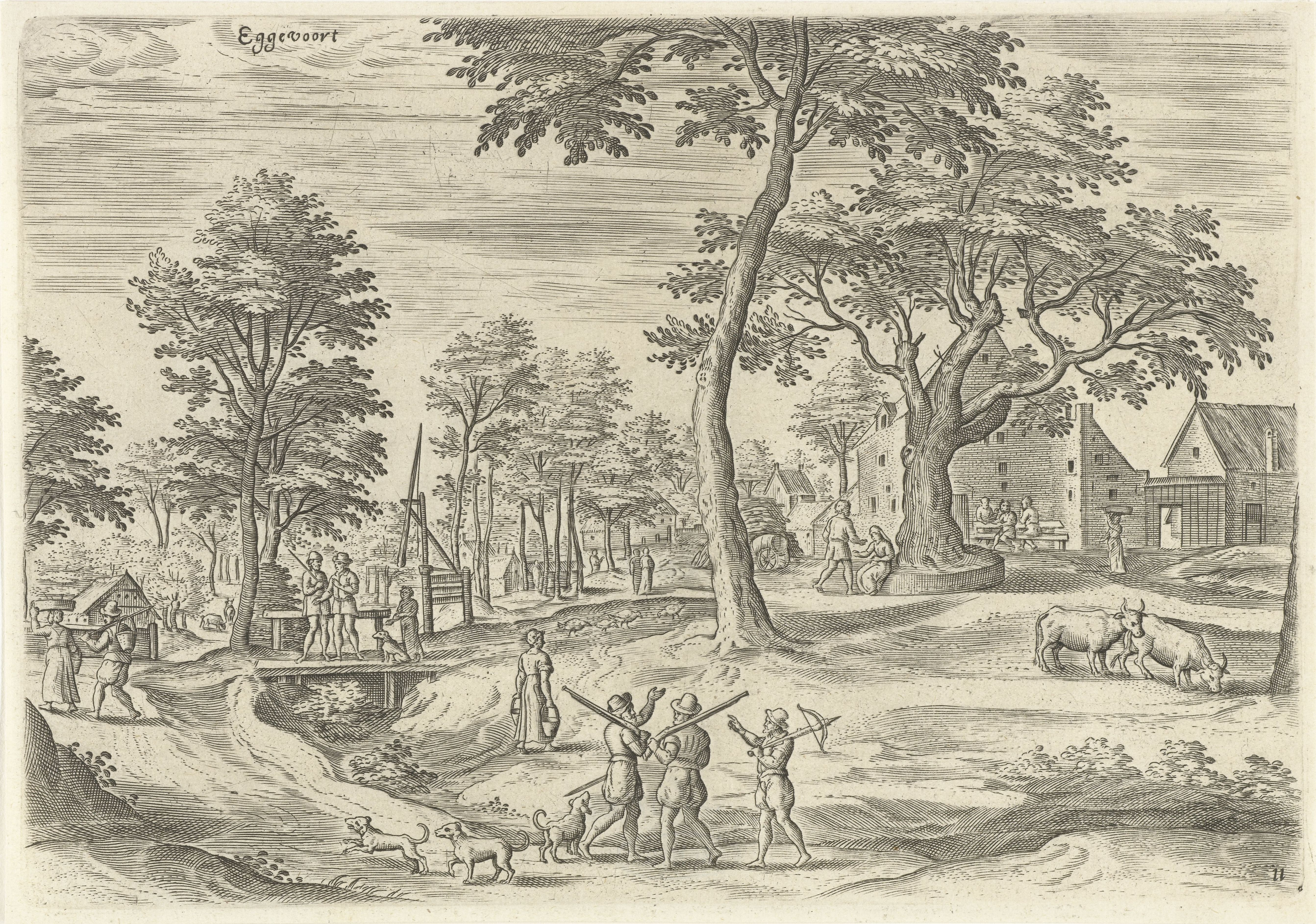 Etching by Hans Collaert (I) after Hans Bol-Jacob Grimmer, from a series of 24 views of Brussels and surroundings, published by Claes Jansz. Visscher (II) in the 16th century.